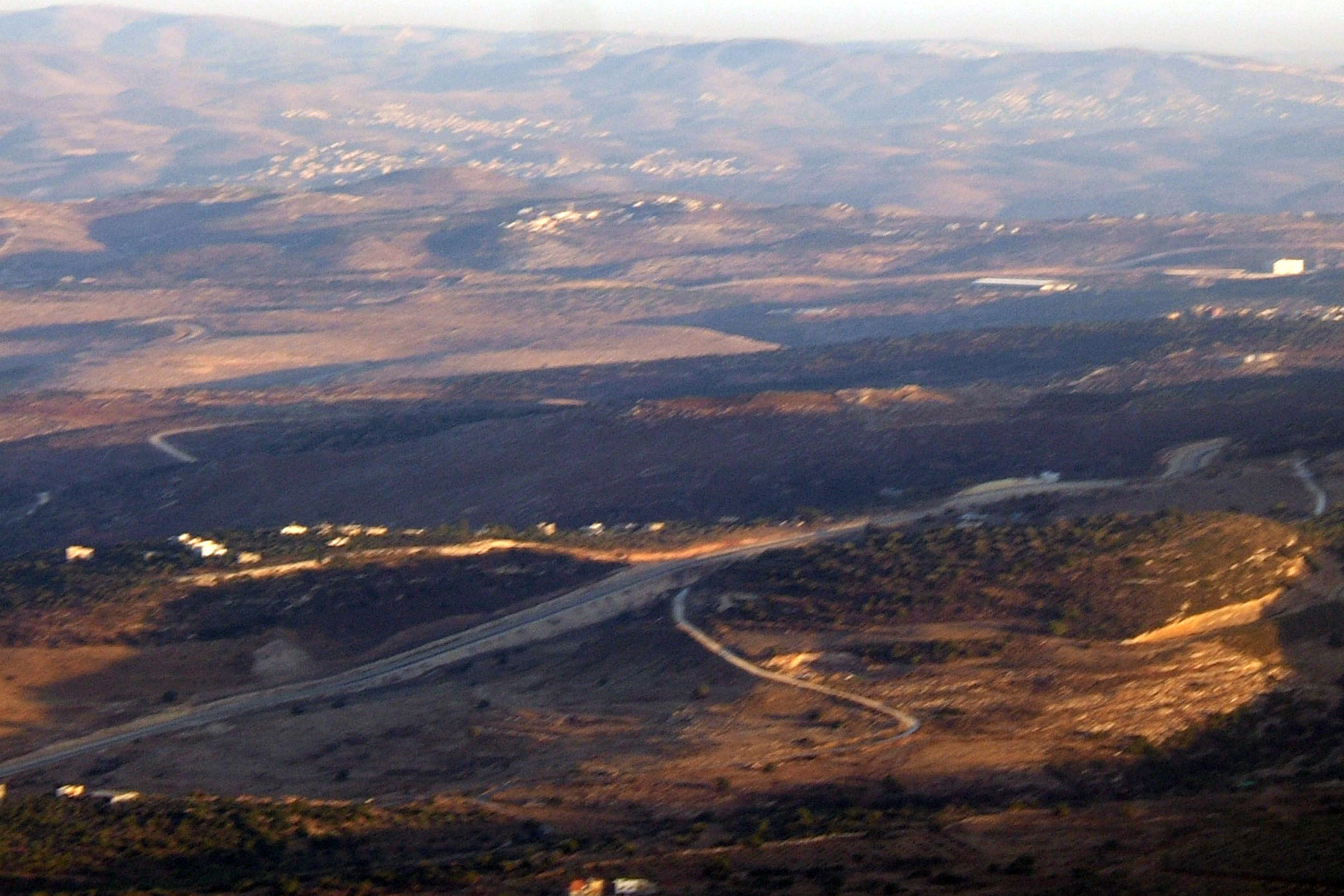 Aerial photo of the Israeli West Bank wall looking from the Israeli side. Taken in Israel 2005 by myself (Bantosh).